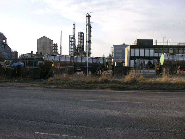 Coalite Plant. The Coalite chemical plant is now closed and is currently being demolished. It used to produce smokeless fuels and many chemicals which were a by-product of the process.